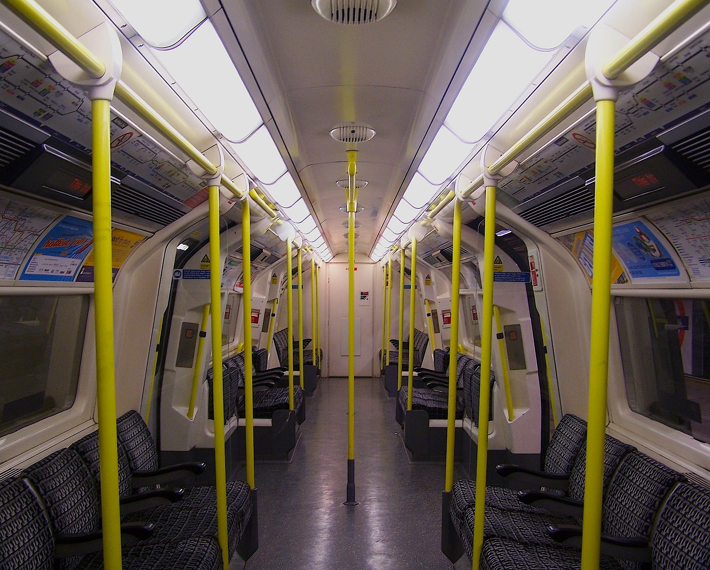 The interior of a 95 Tube Stock Driving Motor vehicle